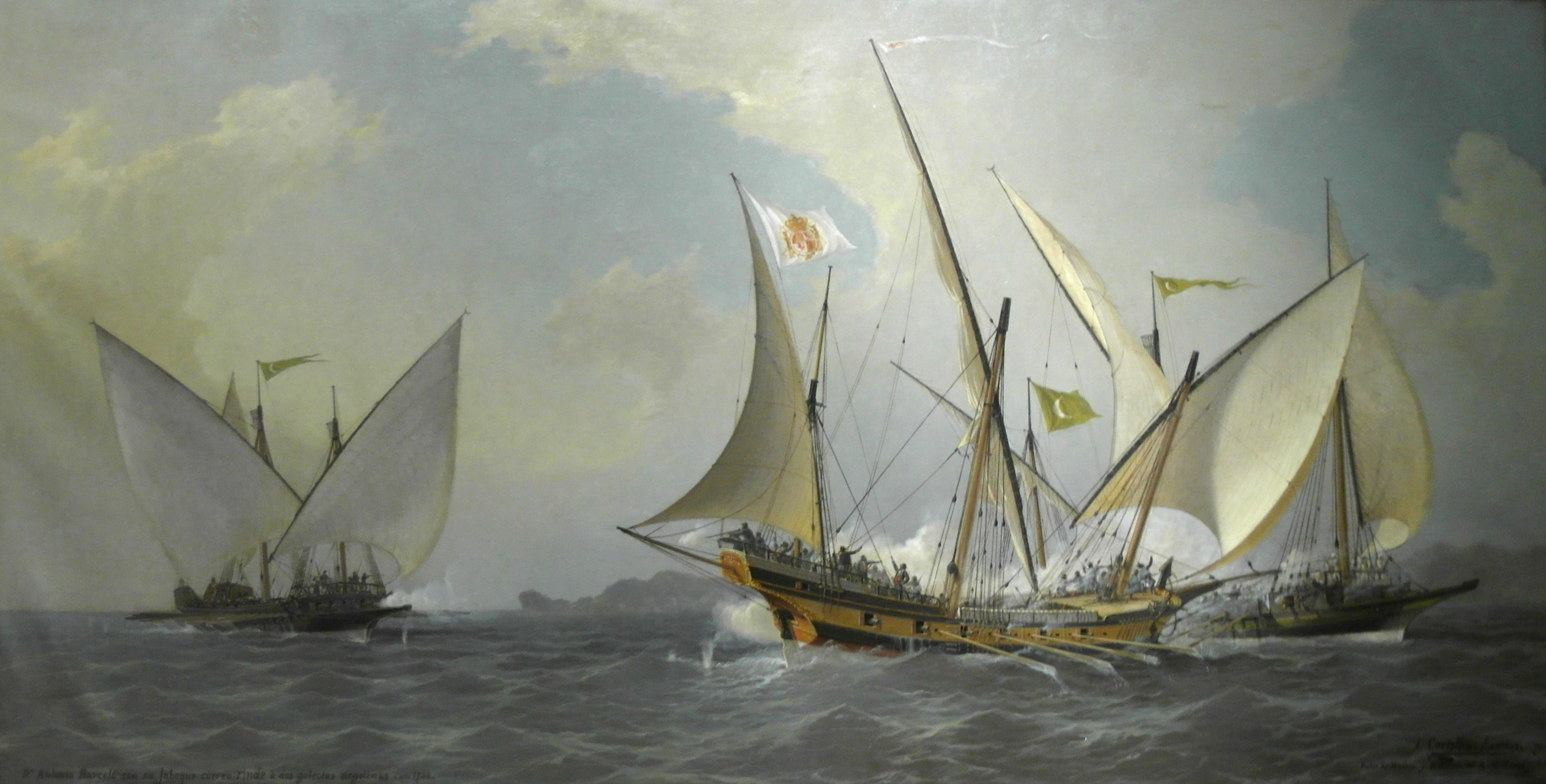 CORRECT CAPTION: "Antonio Barcelo, with his courrier xebec, rejects two algerian galiots (1738)". Madrid's Navy Museum (catalog number: 522). 1902 oil painting by Ángel Cortellini y Sánchez (1858-1912). ORIGINAL CAPTION: "Don Antonio Barceló with his courrier surrenders to two algerian galiots - year 1736". NOTE: A Spanish xebec sails, in foreground, she is firing using her port artillery and heading to an Algerian galiot which almost cuts-off her bow. In the left appears another one, sailing to the xebec and firing her gun while her target shoots back. Barceló became captain of this xebec when he was 18, she was servicing between Palma de Mallorca and Barcelona and this action is set in 1738 while there was a detachment of Dragoons and another of infantry onboard. He stroke back and routed the enemies, for this action he was promoted Ensign. Given the historical explanation it is clear that the painter did a mistake with the caption. The scene is correct but the interpretation and the year don't coincide.